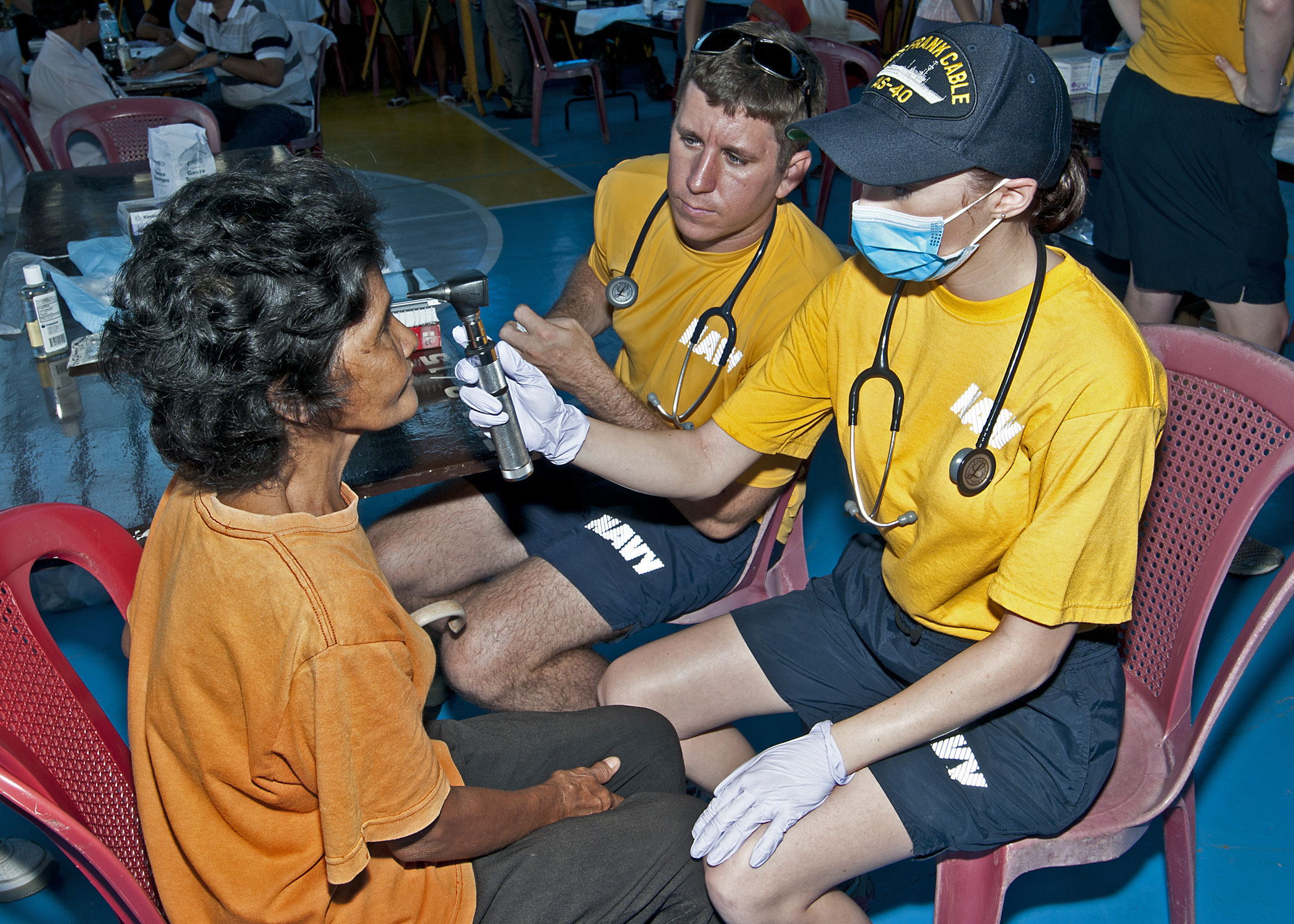 Lt. Robert Hanson and Hospitalman Tiffany Martin, both assigned to the submarine tender USS Frank Cable (AS 40), perform an eye exam on a patient outside City Hall. Sailors from the ship's health services department and Olongapo City's health department spent the day caring for several hundred patients. Frank Cable conducts maintenance and support of submarines and surface vessels deployed in the U.S. 7th Fleet area of responsibility. (U.S. Navy photo by Mass Communication Specialist Seaman Chris Salisbury)